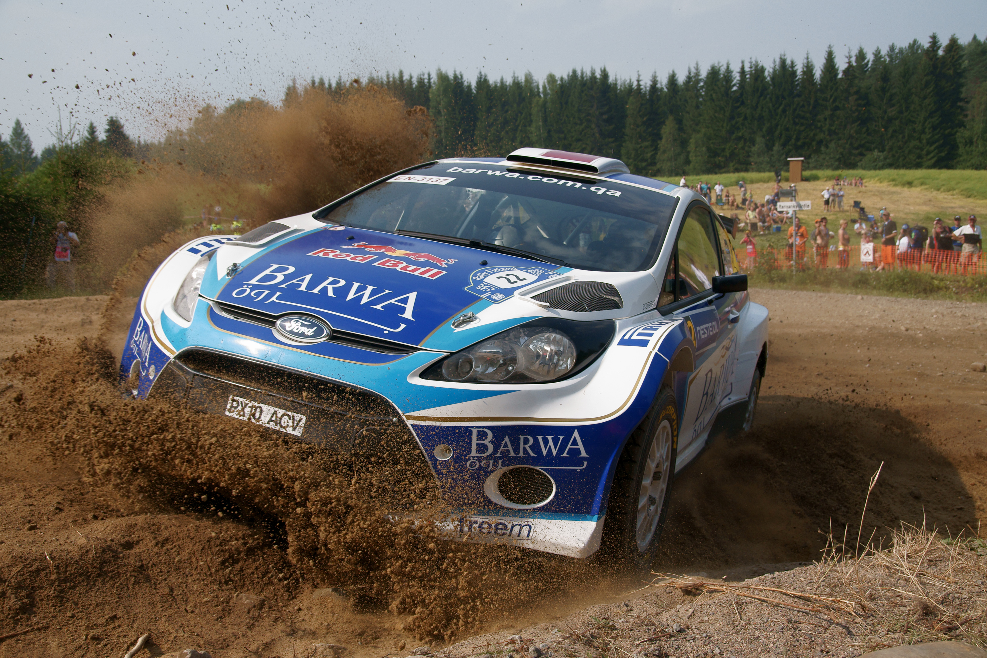 Nasser Al-Attiyah driving his Ford Fiesta S2000 at Rannakylä shakedown in Muurame of the Neste Oil Rally Finland 2010.